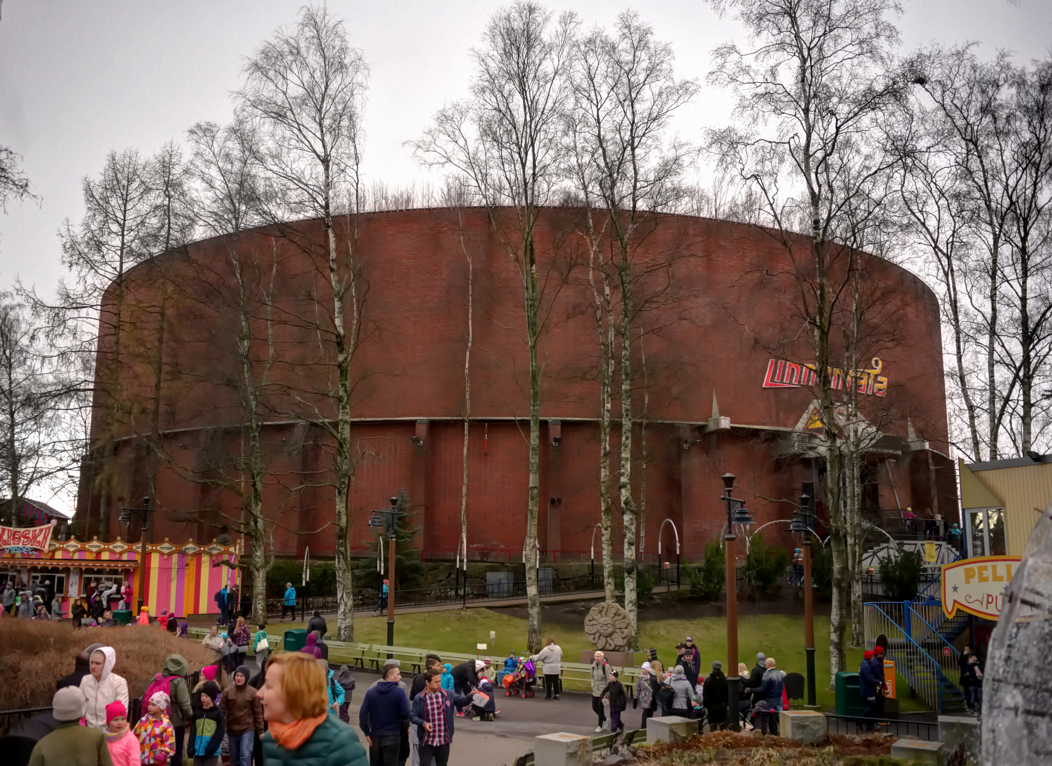 Vesilinnanmäen (Linnanmäen) uudempi vesitorni